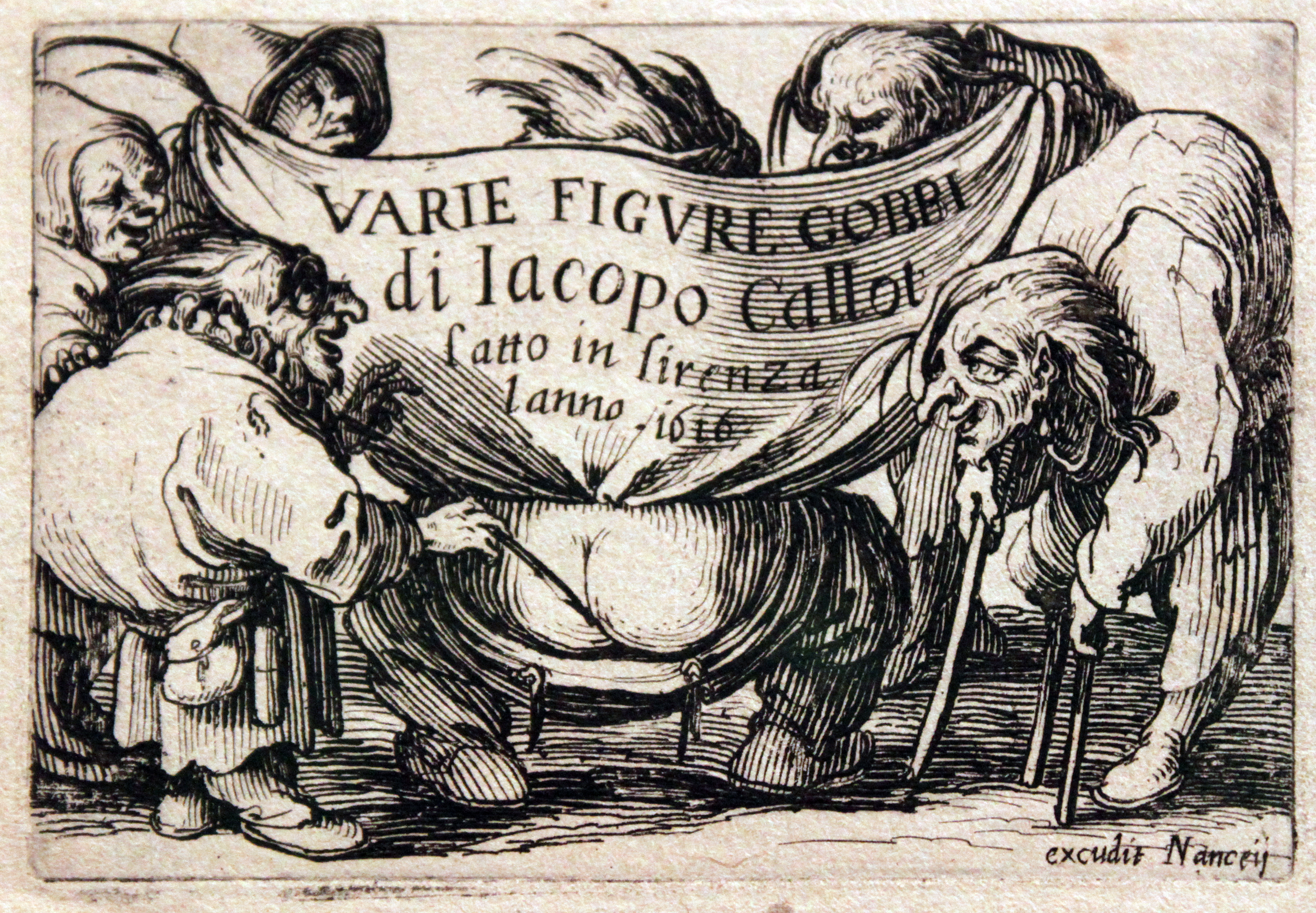 Varie Figure Gobbi: Series of 21 etchings: Frontispiece